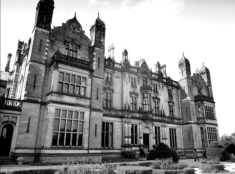 Merevale Hall, Warwickshire - historic seat of the ancient Stratford Family, present seat of the Dugdale Baronets.